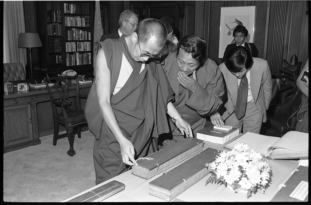 Dalai Lama visits LOC